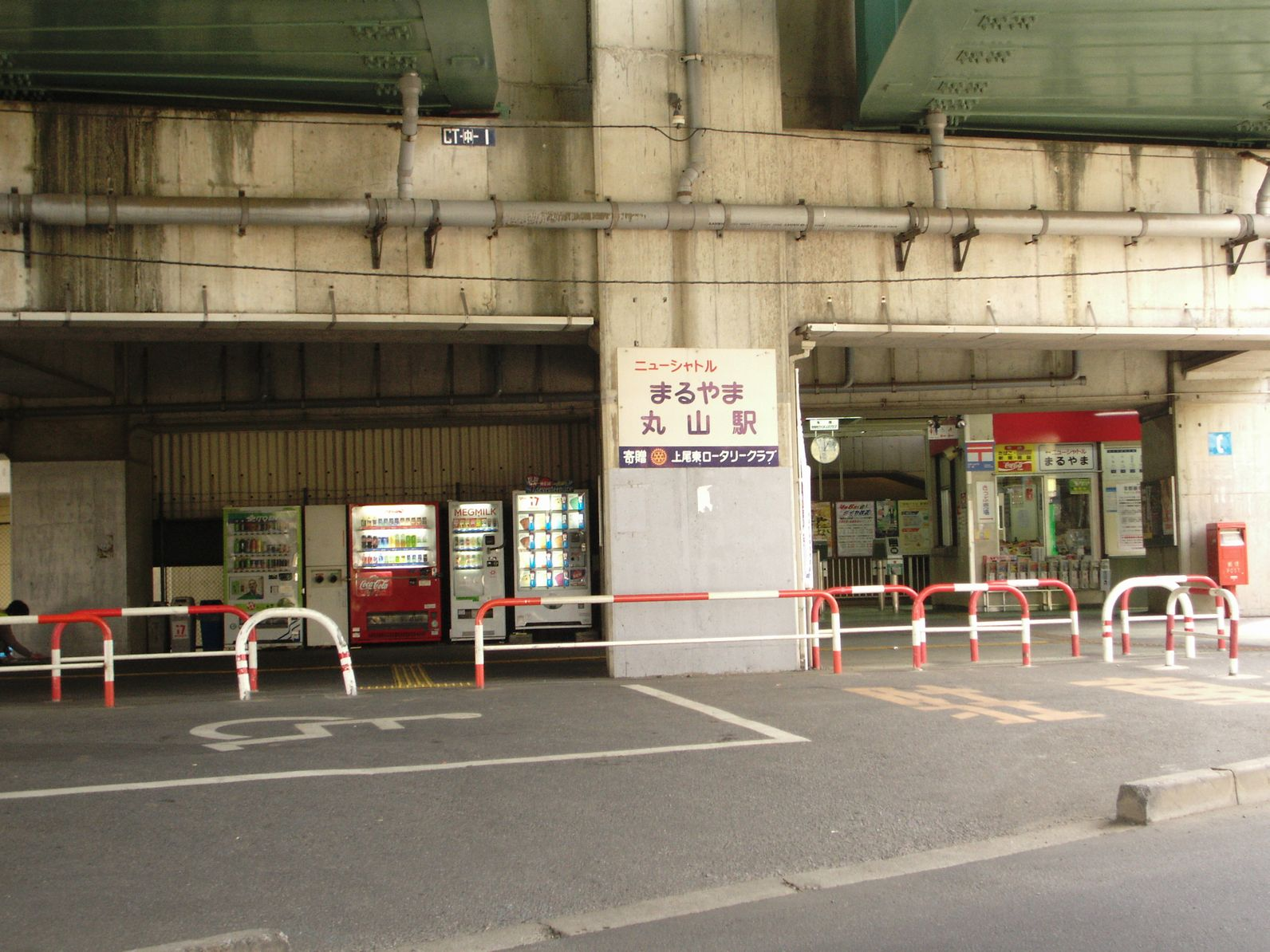 Saitama New Transit Maruyama Station